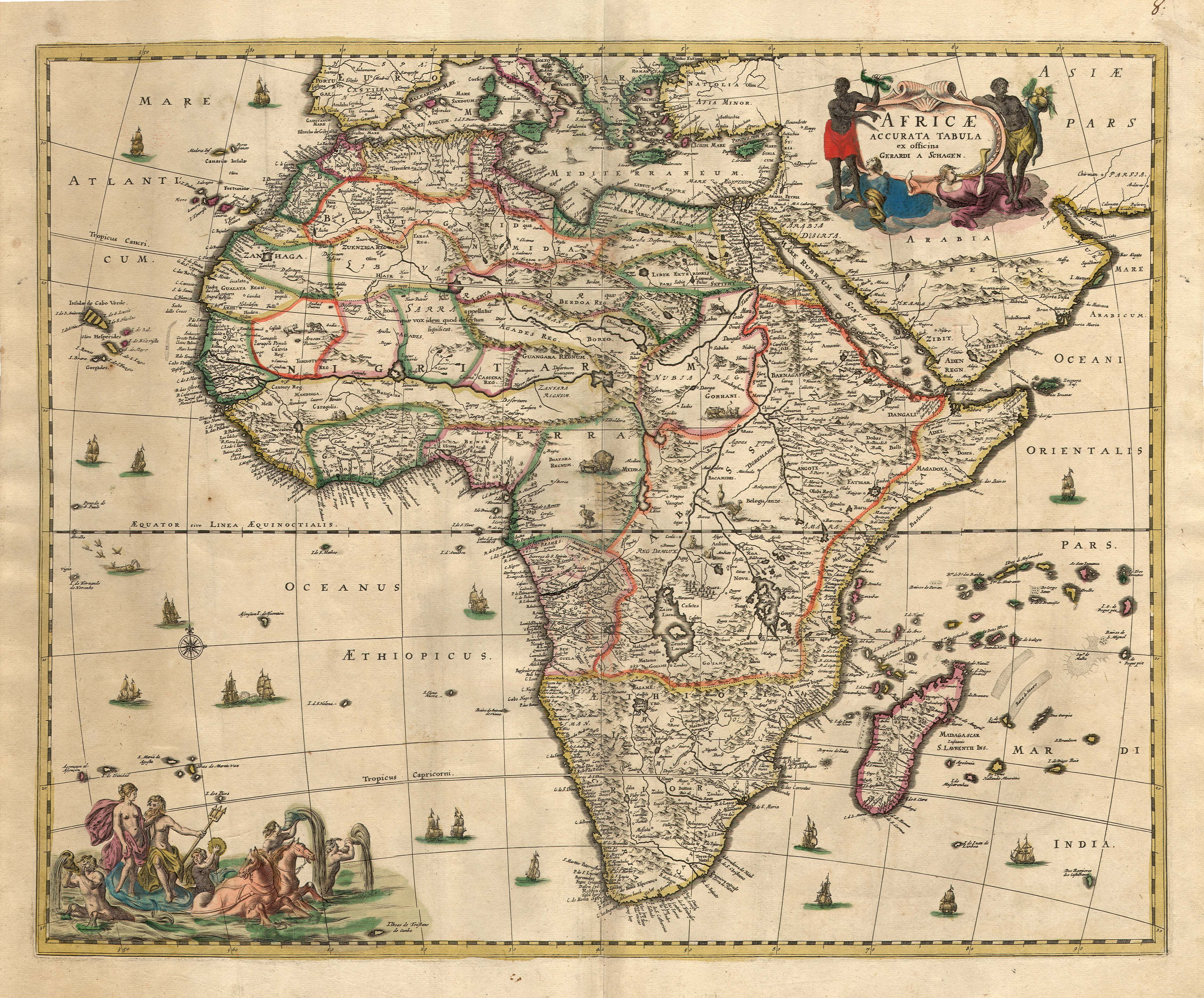 ِAfrica map - Produced in Amsterdam FIRST edition : 1689 Produced using copper engraving